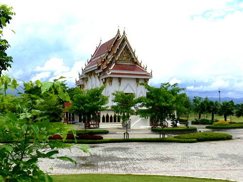 Picture of sonthikornpracharam Temple